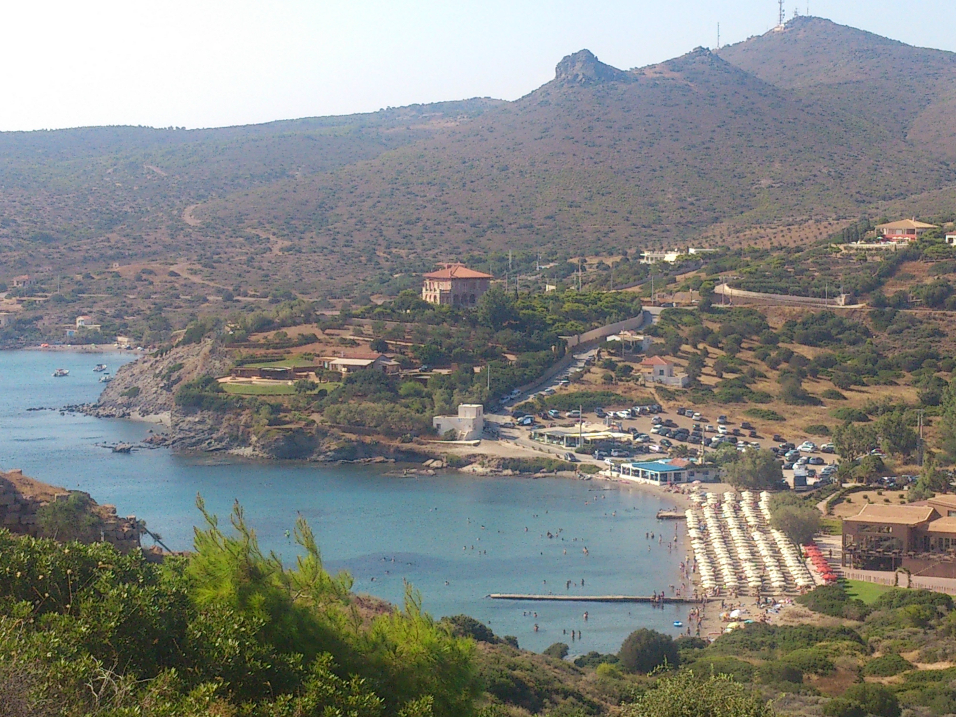 Beach accomodated into a recreational area.